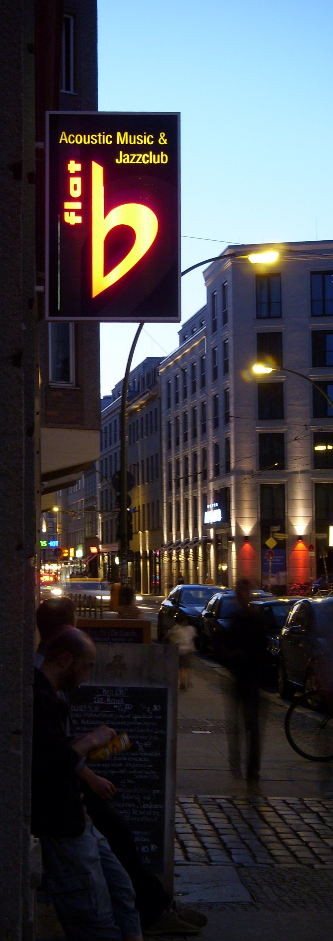 b-flat at dusk